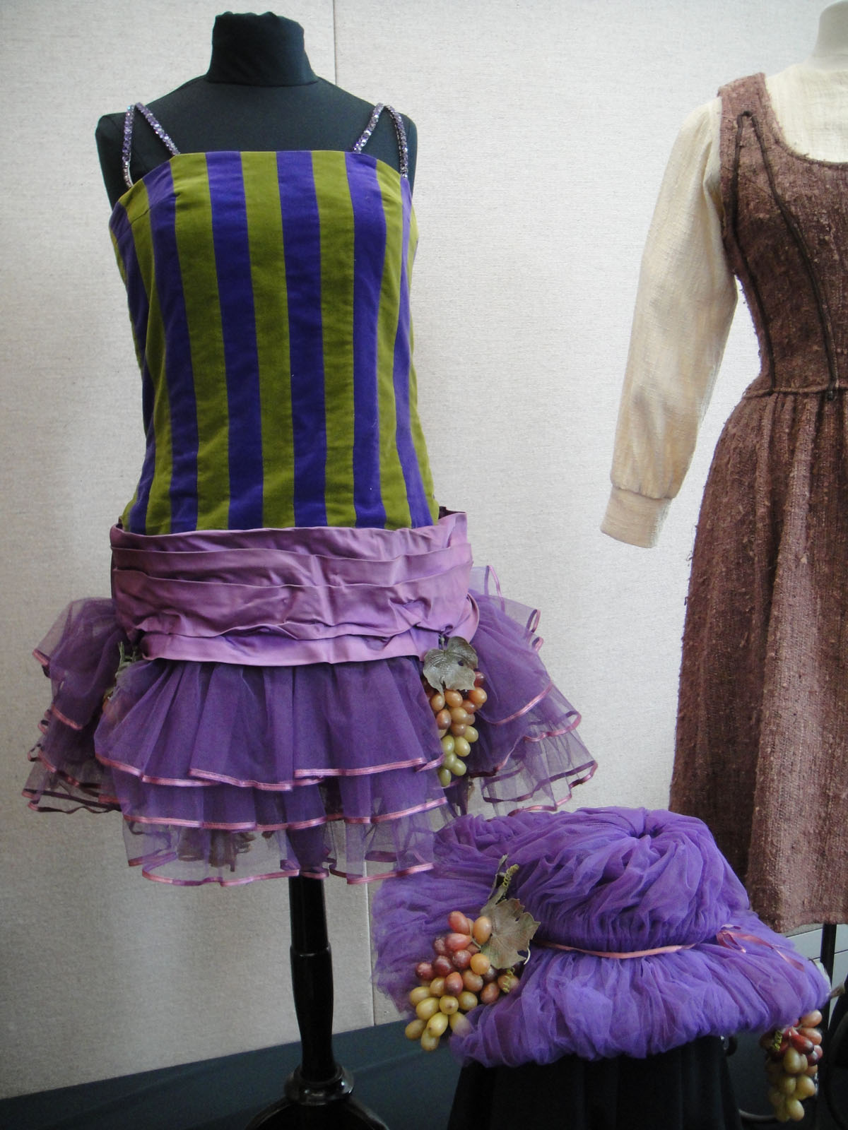 Barbara Steisand outfit from "Funny Girl" at the Debbie Reynolds Auction Breaks Up Historic Hollywood Collection (The Paley Center for Media in Beverly Hills, Los Angeles, CA, USA).